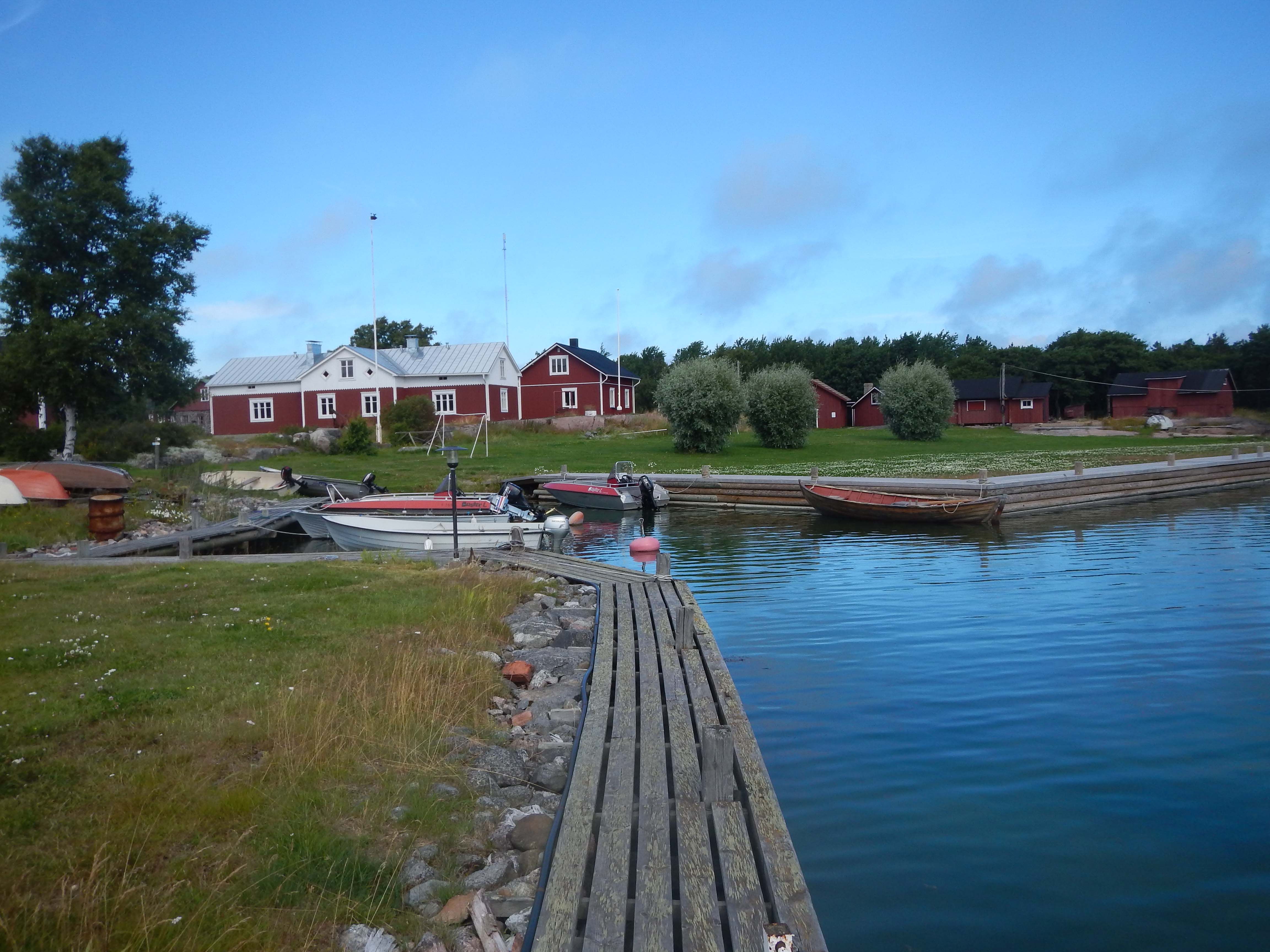 Island of Borstö in southernmost Nagu